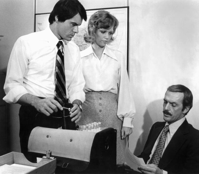 ID#: 4768 Description: Here Robert Urich, Maureen Reagan, and Jack Hogan, pose for a 1974 publicity photo for the TV show Vector. A 1975 TV pilot, titled The Specialist, featured fictional characters from the Bureau of Epidemic Control. However, the pilot was never sold as a series and the TV program titled Vector, was never picked up. High Resolution: Right click here and select "Save Target As..." for hi-resolution image (5.56 MB) Content Providers(s): CDC Creation Date: Photo Credit: Links: Categories: CDC Organization MeSH tree picture Information Science tree picture tree picture Information Science tree picture tree picture tree picture Communications Media tree picture tree picture tree picture tree picture Audiovisual Aids tree picture tree picture tree picture tree picture Telecommunications tree picture tree picture tree picture tree picture tree picture Television Copyright Restrictions: None - This image is in the public domain and thus free of any copyright restrictions. As a matter of courtesy we request that the content provider be credited and notified in any public or private usage of this image.